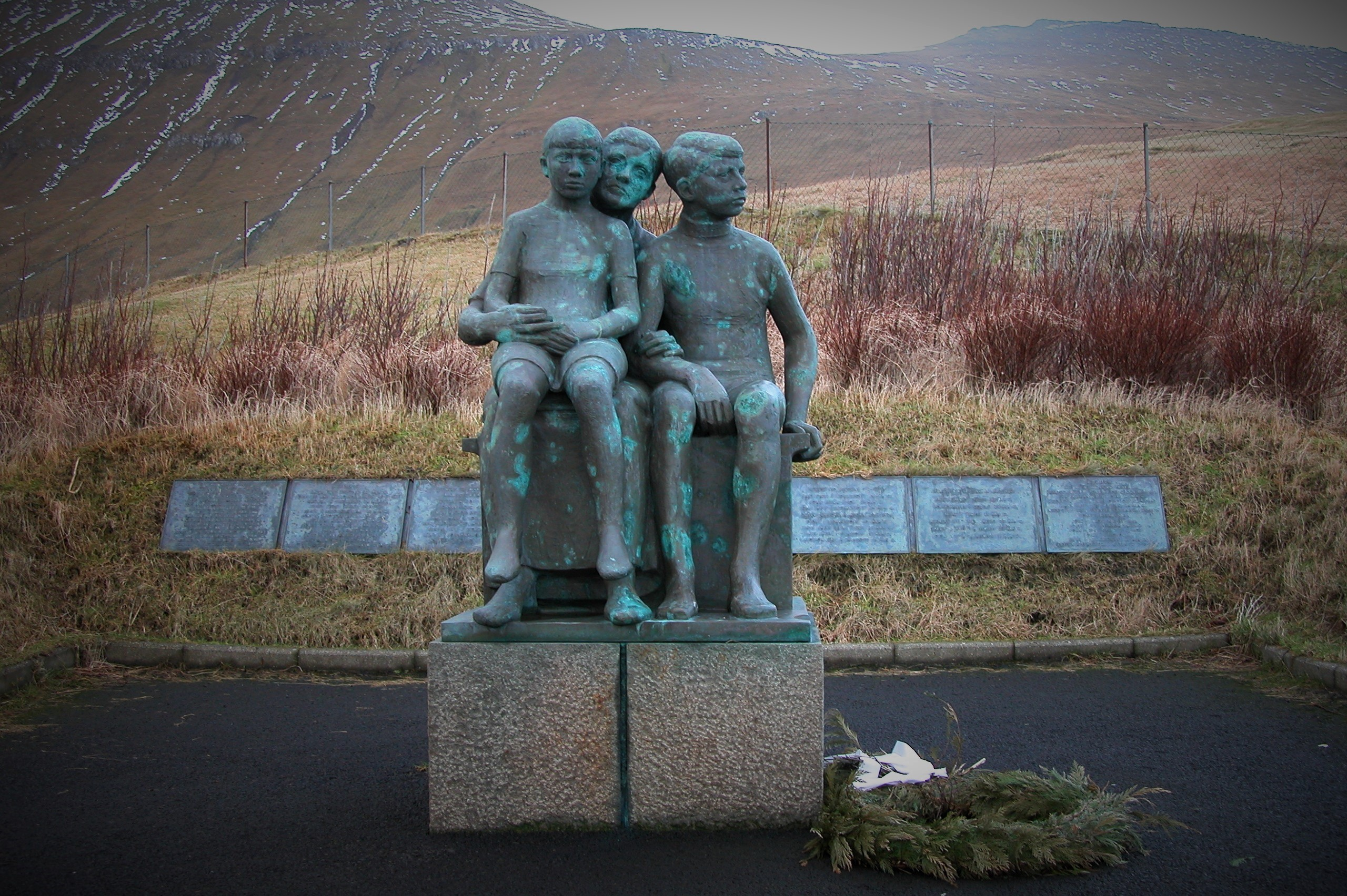 Near the church a sculpture stands as a memorial to fishermen lost at sea